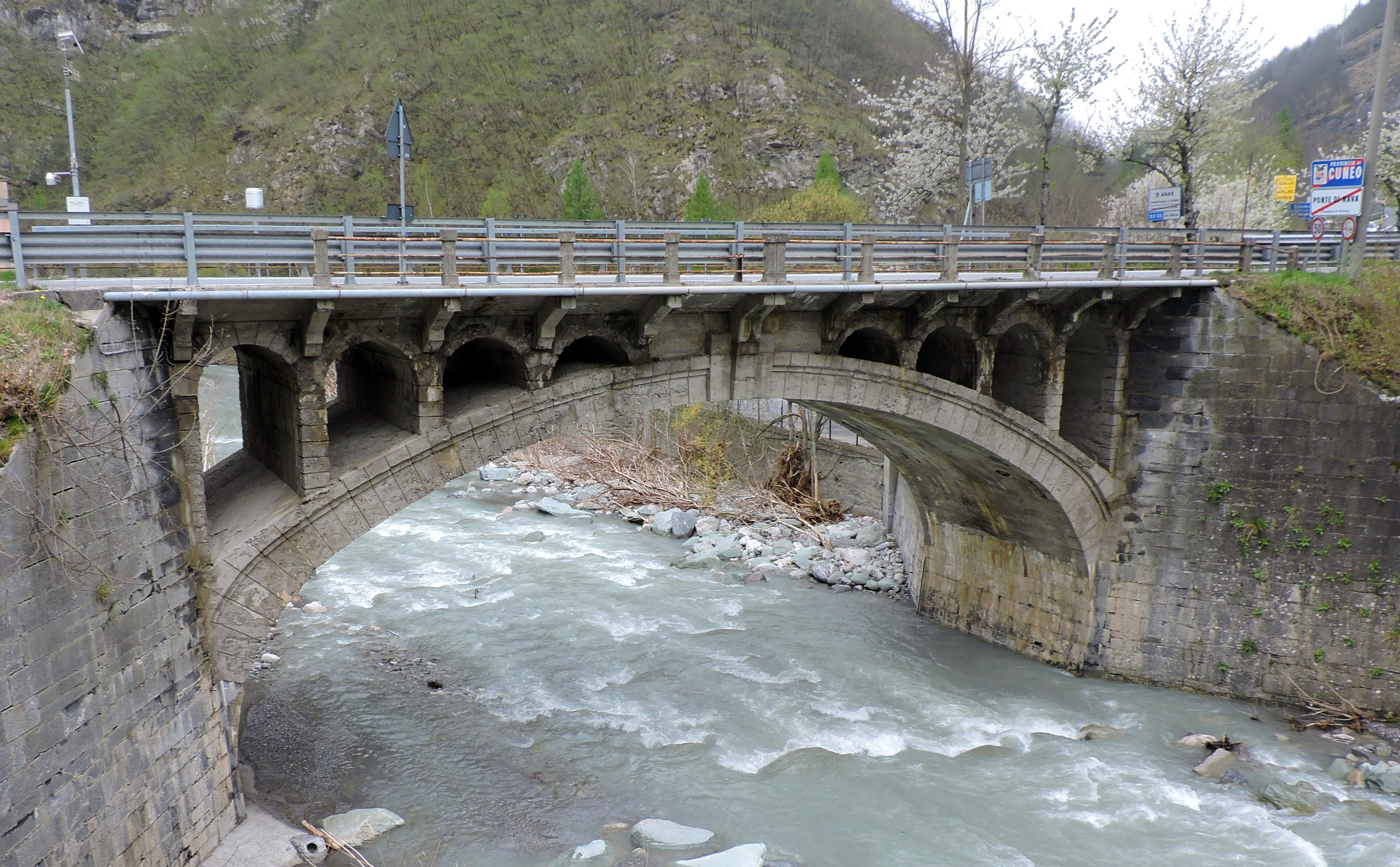 Nava bridge on river Tanaro (Piemonte/Liguria, Italy)